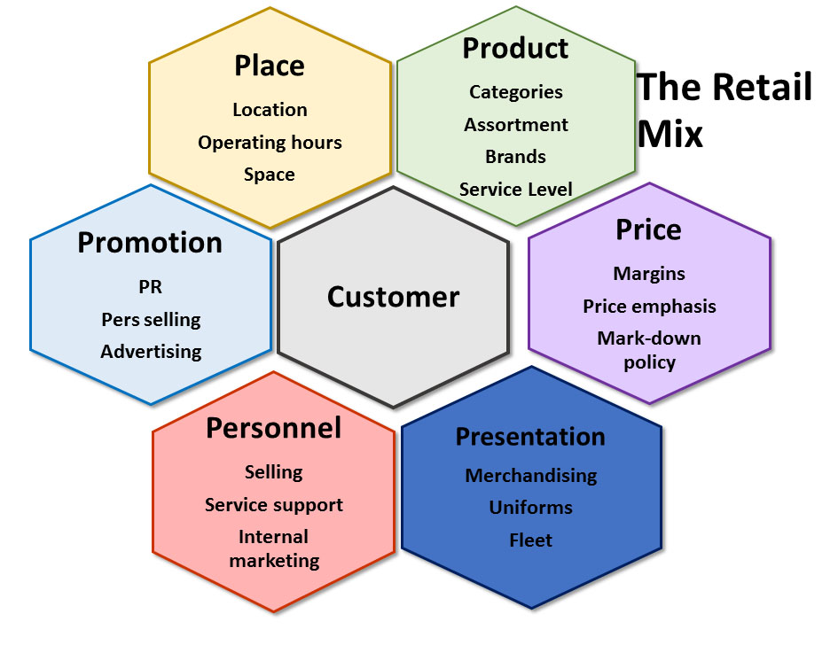 retail mix, idea based on a journal article (not graphic idea) but with modified content and graphic